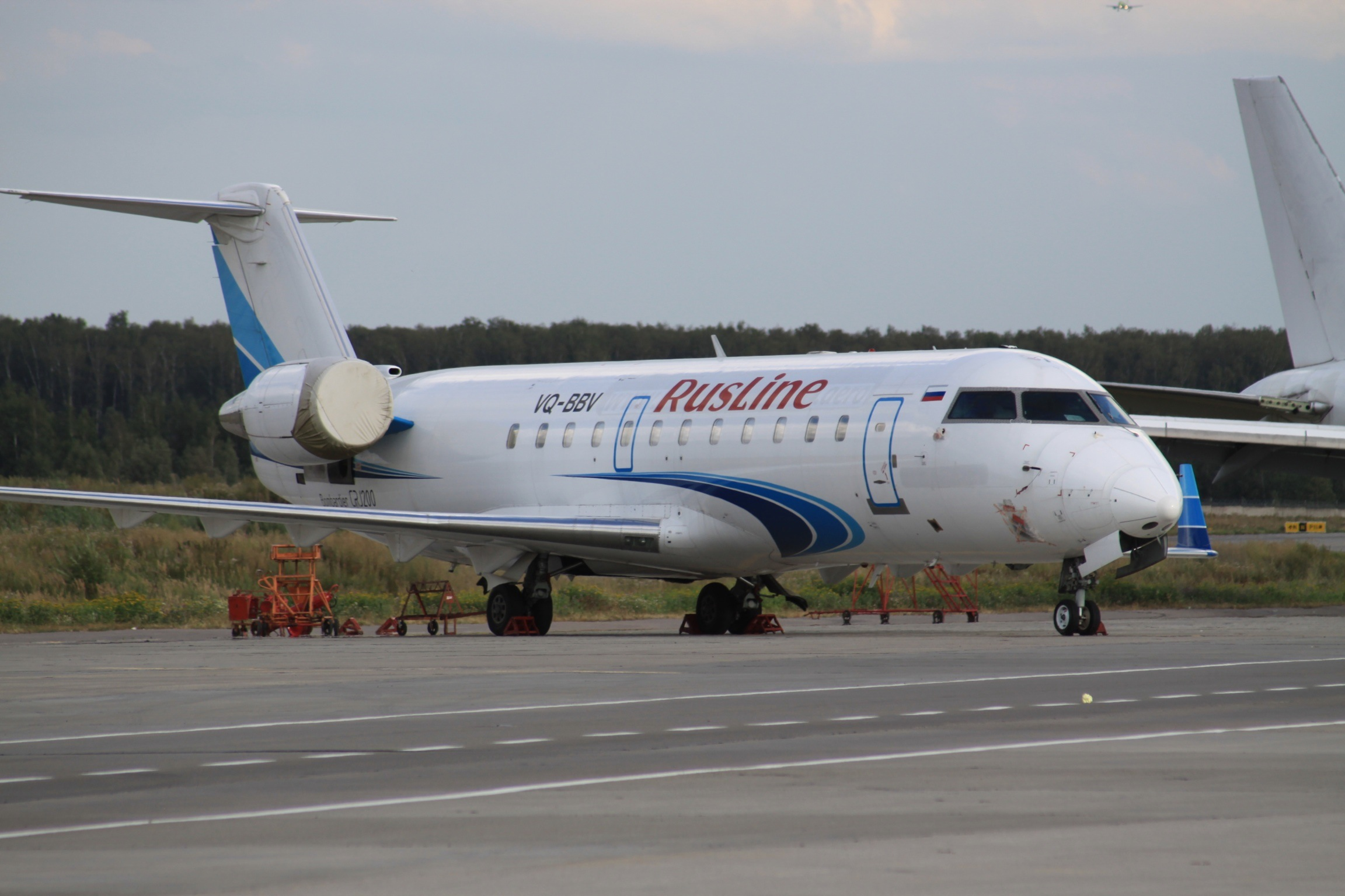 At Moscow Domodedovo